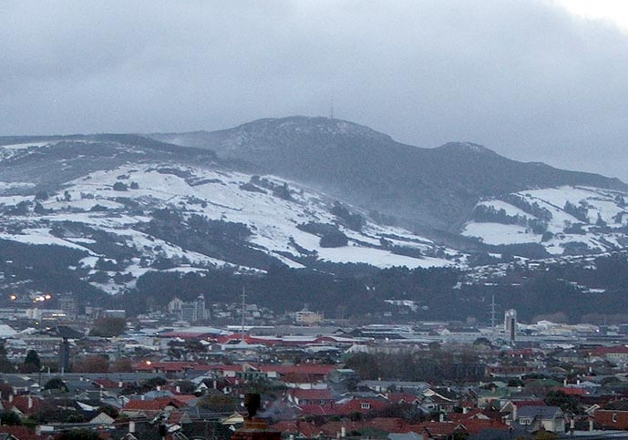 Mount Cargill, in Otago, New Zealand, in mid-winter 2007 Photographed by James Dignan (User:Grutness) from St. Clair, South Dunedin, looking across the city.